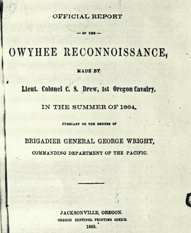 Title page of the Official Report of the Owyhee Reconnaissance, made by Lieutenant Colonel C.S. Drew, 1st Oregon cavalry, in the summer of 1864, Pursuant to the Orders of Brigadier General George Wright, Commanding Department of the Pacific, printed by the Oregon Sentinel Printing Office in Jacksonville, Oregon, 1865